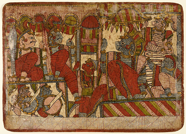 Rama and Lakshmana at Conference with Sugriva, the Simian King, and Companions, Scene from the Story of the Burning of Lanka, Folio from a Ramayana (Adventures of Rama), circa 1850 Painting; Watercolor, Opaque watercolor on paper, 12 x 16 3/4 in. (30.48 x 42.54 cm) Made in: India, Maharashtra, Paithan from LACMA[1]